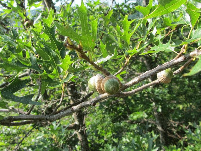 Found in Porcupine Mountains State Park, Michigan.